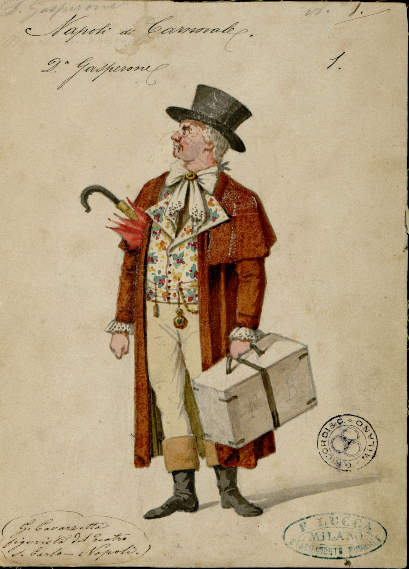 Costume design for Don Gasperone made for the premiere production of Nicola De Giosa's opera Napoli di carnovale, Teatro Nuovo, Naples, 1876